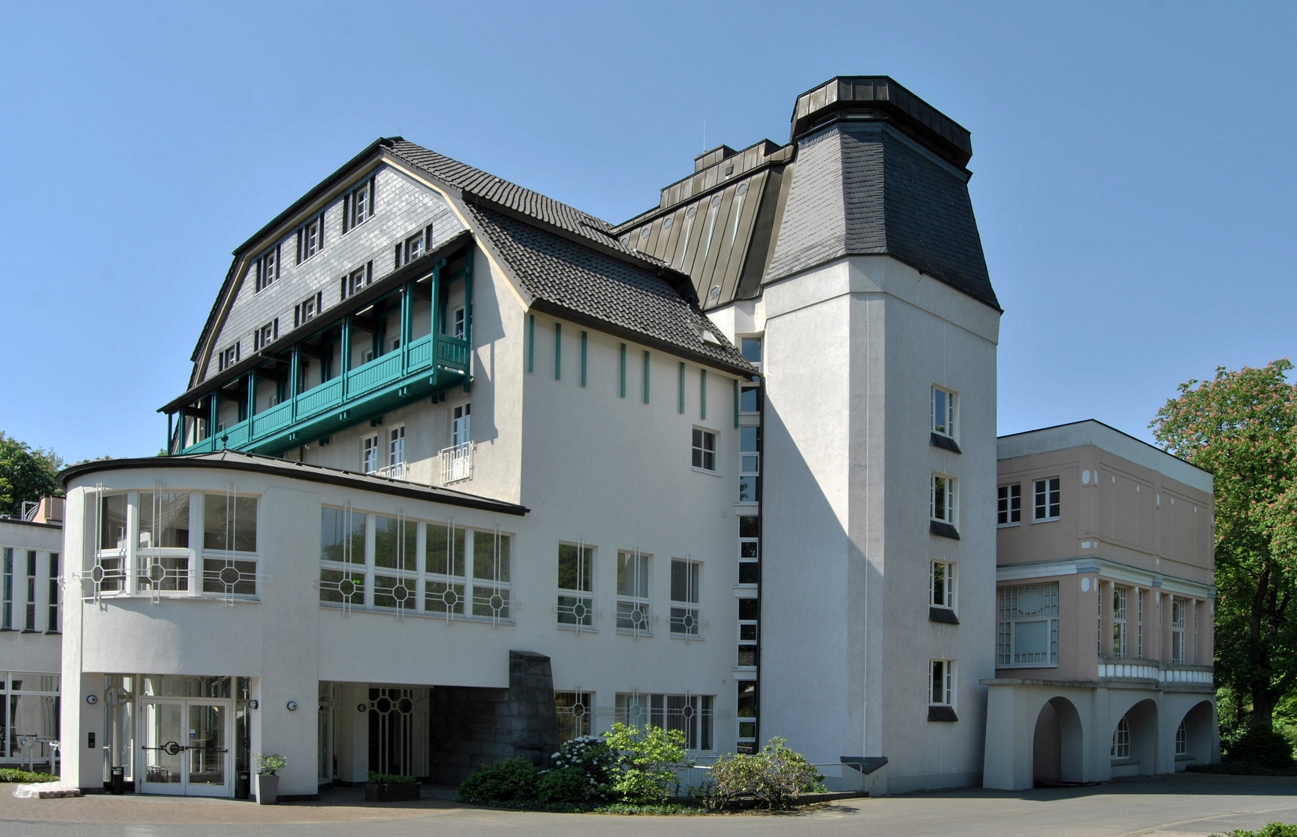 Mülheim (North Rhine-Westphalia, Germany) – The Wolfsburg – northeast sideThis photograph was taken with a Nikon D3000